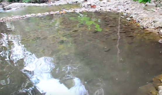 fresh basin